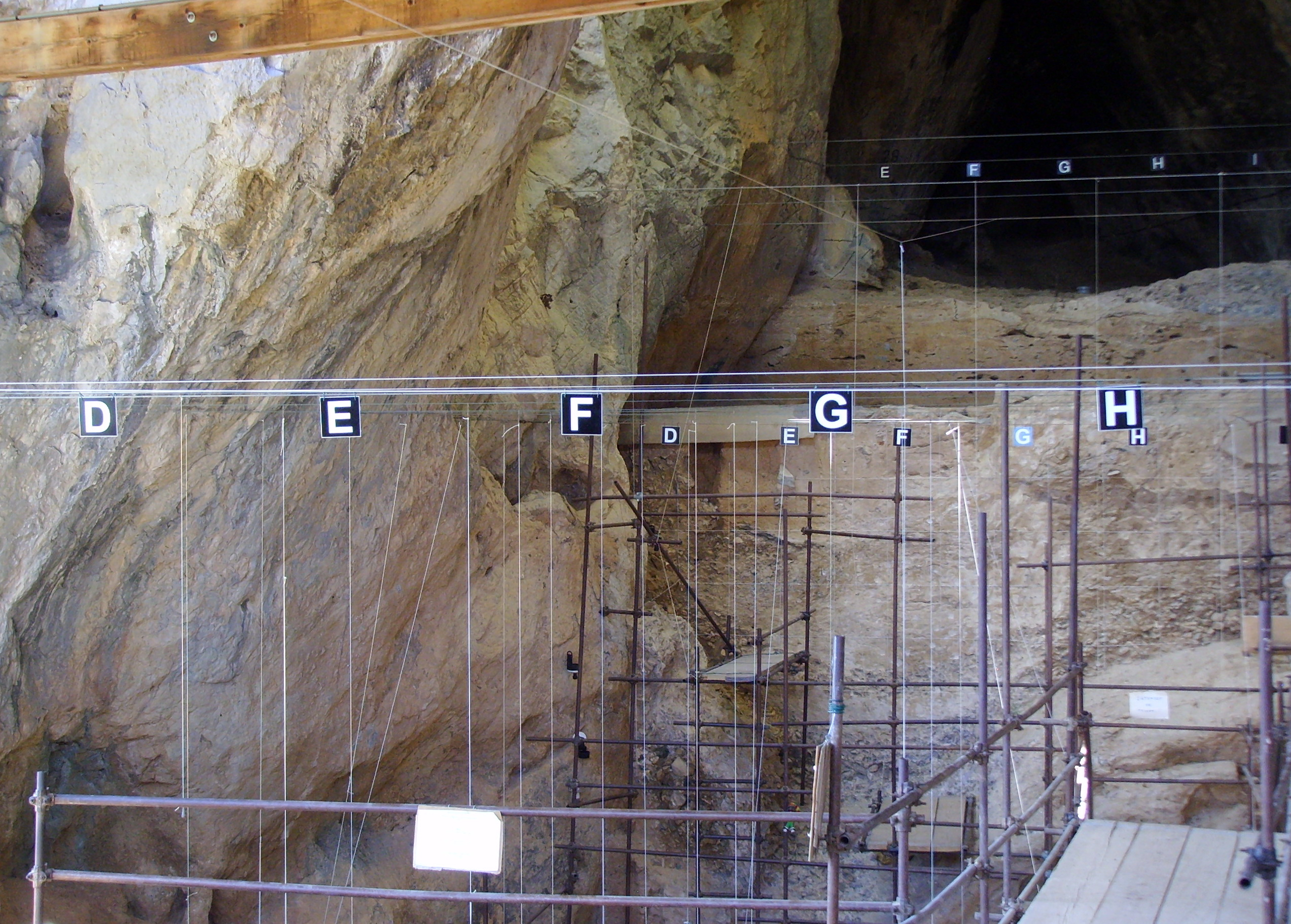 Arago-cave, near Tautavel (Perpignan-region), France